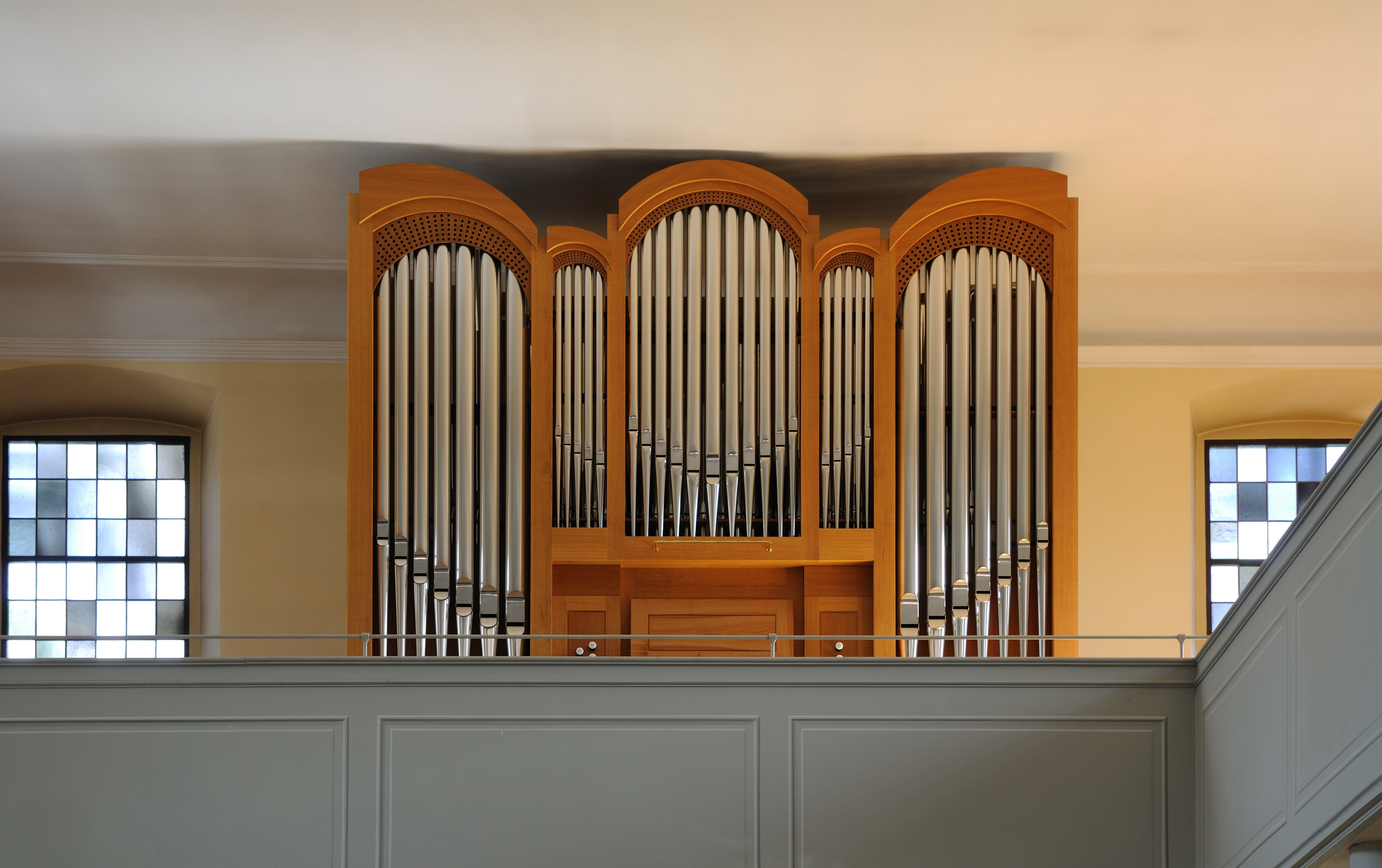 Hasel: Protestant Church